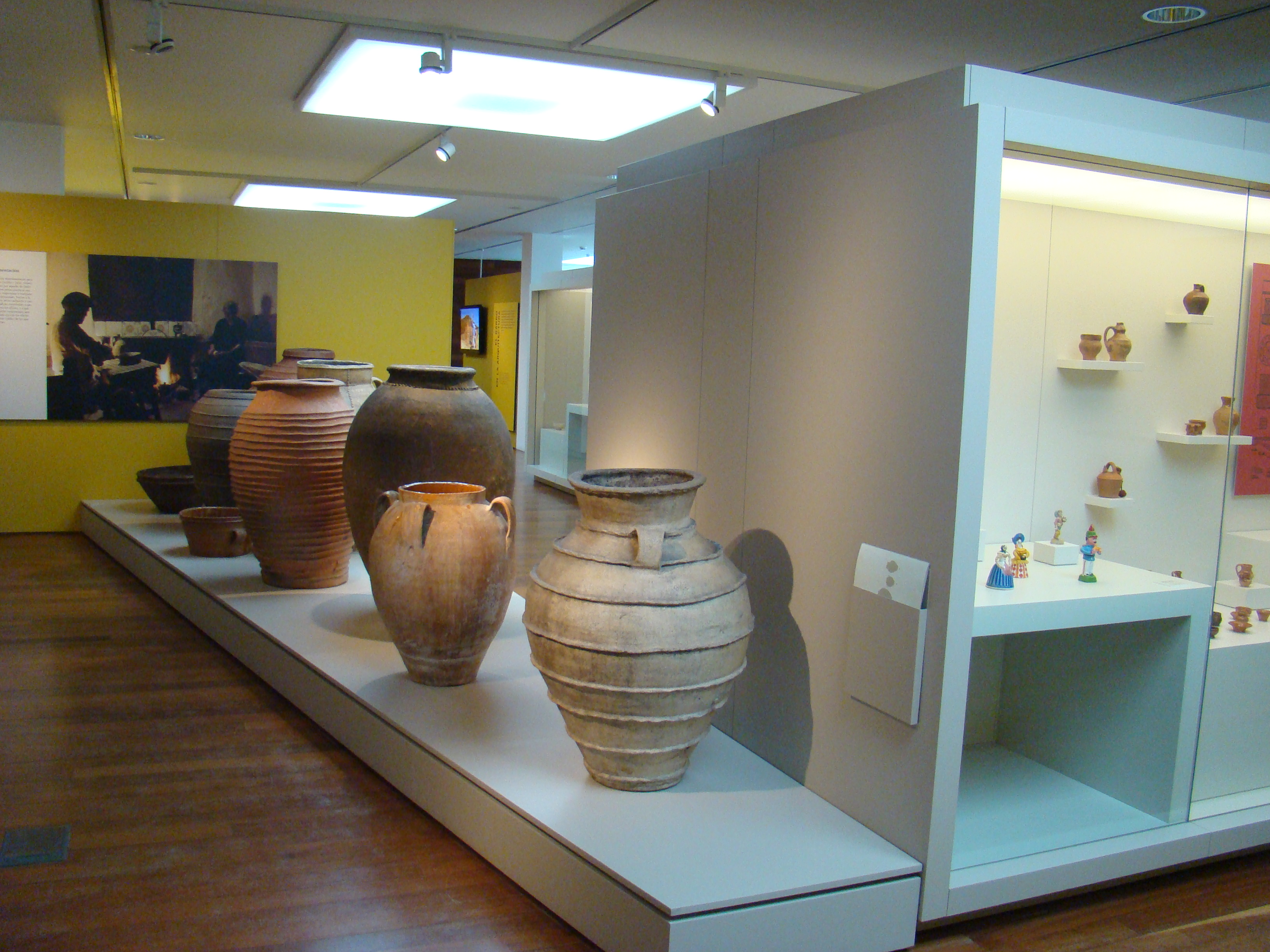 Ethnographic museum of Castile and León. It is located in Zamora, Spain